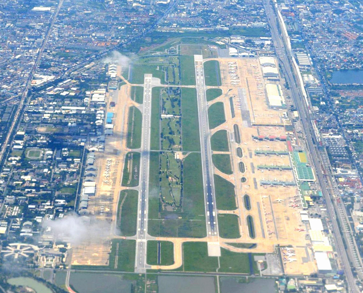 Dmk airport